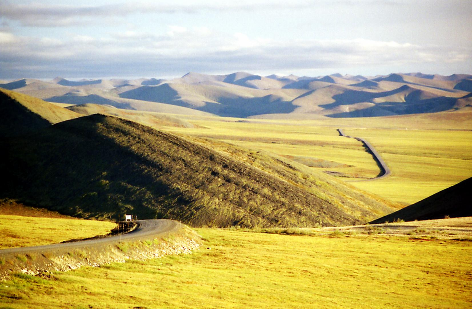 Dempster Highway: Richardson Mountains seen from Whright Pass near the Yukon/NWT border